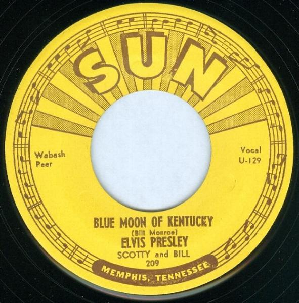 Blue Moon of Kentucky by Elvis Presley / Scotty and Bill, Sun 1954.